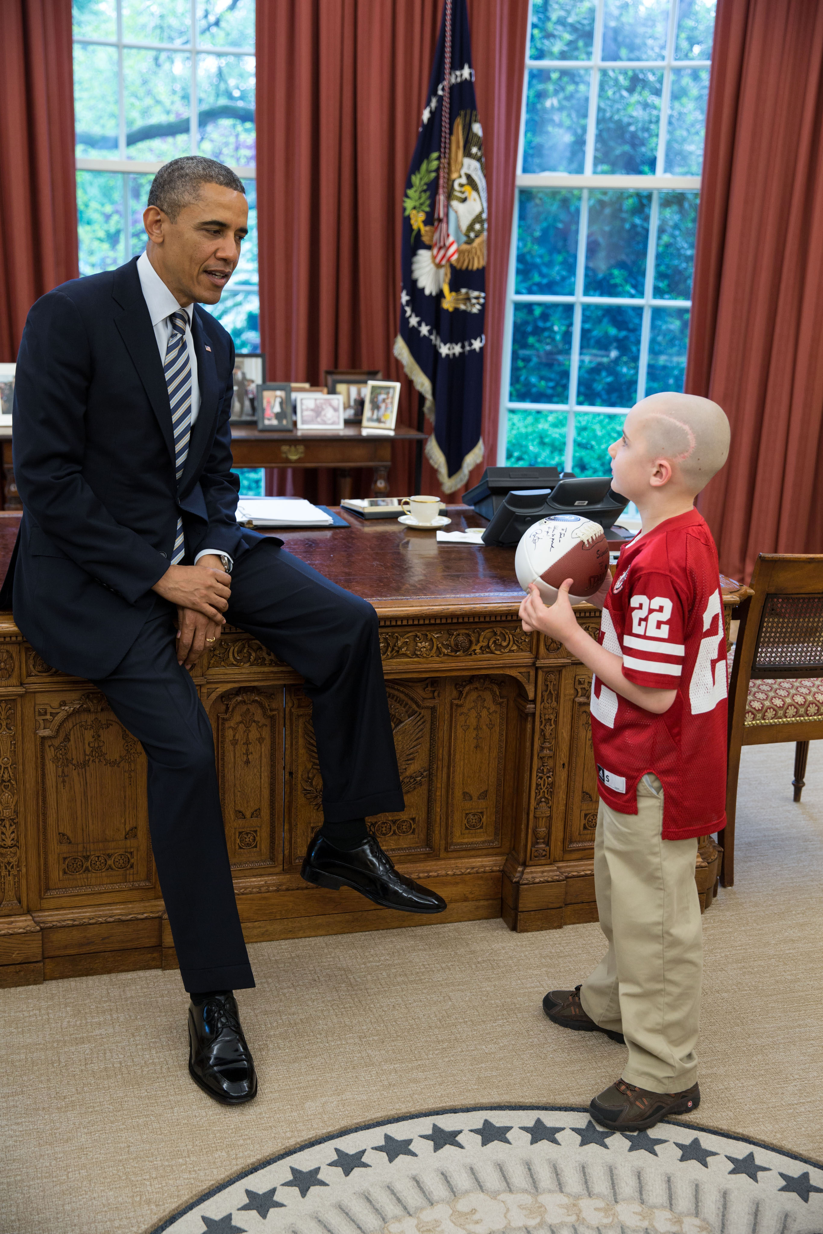 President Barack Obama greets Jack Hoffman from Atkinson, Nebraska, April 29 2013 in the Oval Office.